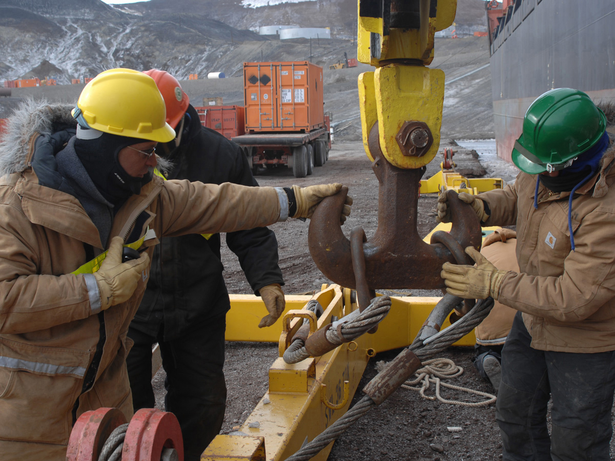 U.S. Navy sailors assigned to Navy Cargo Handling Battalion (NCBH) 1 load a cargo container onto the Military Sealift Command container ship MV American Tern during Operation Deep Freeze, the annual operation to resupply the National Science Foundation's McMurdo Station on Ross Island, Antarctica, Feb. 8, 2007. NCBH 1 is the only active-duty component of the Naval Expeditionary Logistics Support Force, headquartered in Williamsburg, Va., and is a component of the U.S. Fleet Forces Command. (U.S. Navy photo by Mass Communication Specialist 3rd Class Jack Georges) Released But Not Accessioned (Cleaned and/or Corrected)